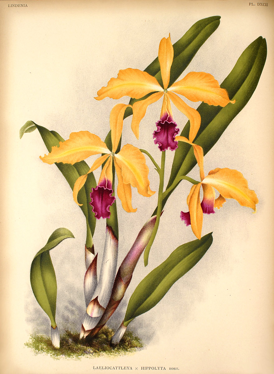 Laeliocattleya х Hippolyta